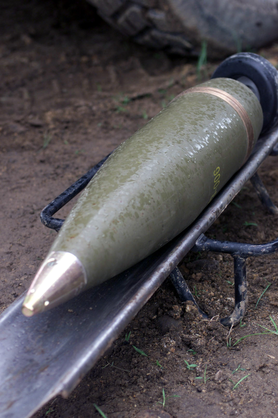 An M107 155mm High Explosive Projectile with an M739A1 Point Detonating (PD) Fuse in place, used by Marines from 5th Battalion 10th Marine Regiment, Camp Lejeune, North Carolina, during a Unit Deployment Program [UDP] to 3D Battalion 12th Marine Regiment, when firing the M198 155mm Medium Howitzer. The 95-pound projectile rests on two man carrier used to move it to the Howitzer.